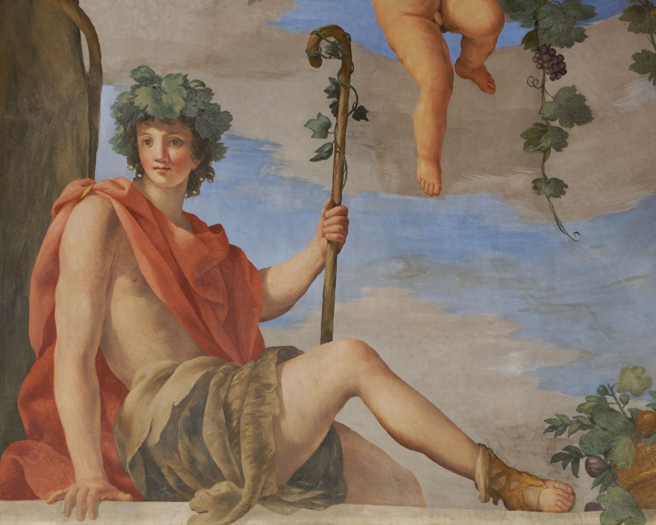 Dionysos, detail of an allegory of Autumn. Fresco, corner of the ceiling, antechamber of Anne of Austria's summer apartments.